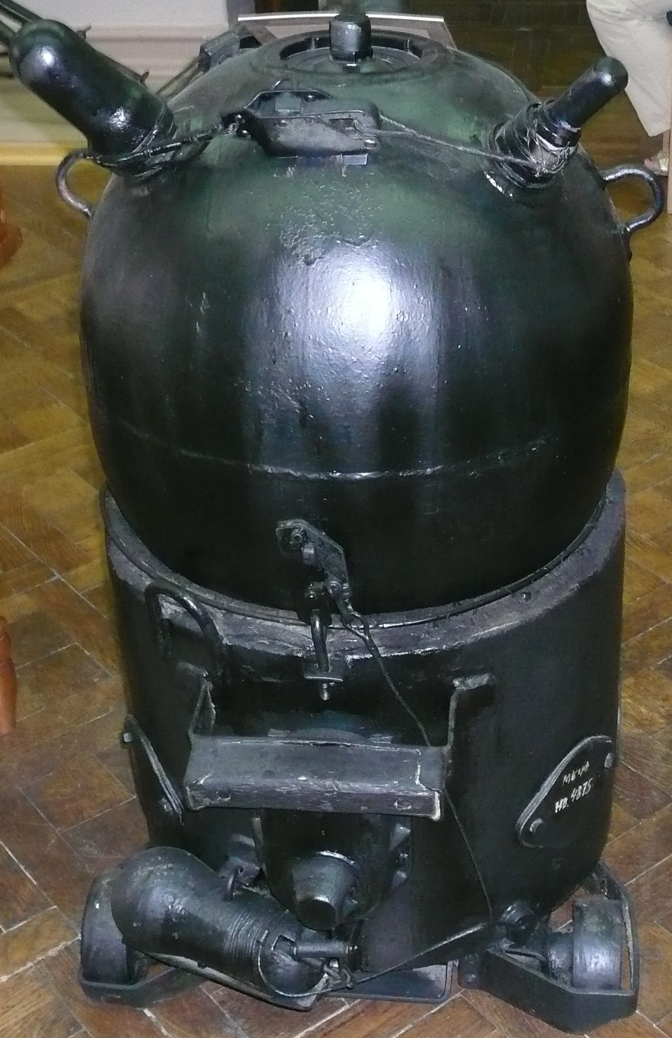 Naval mine. USSR, 1943.